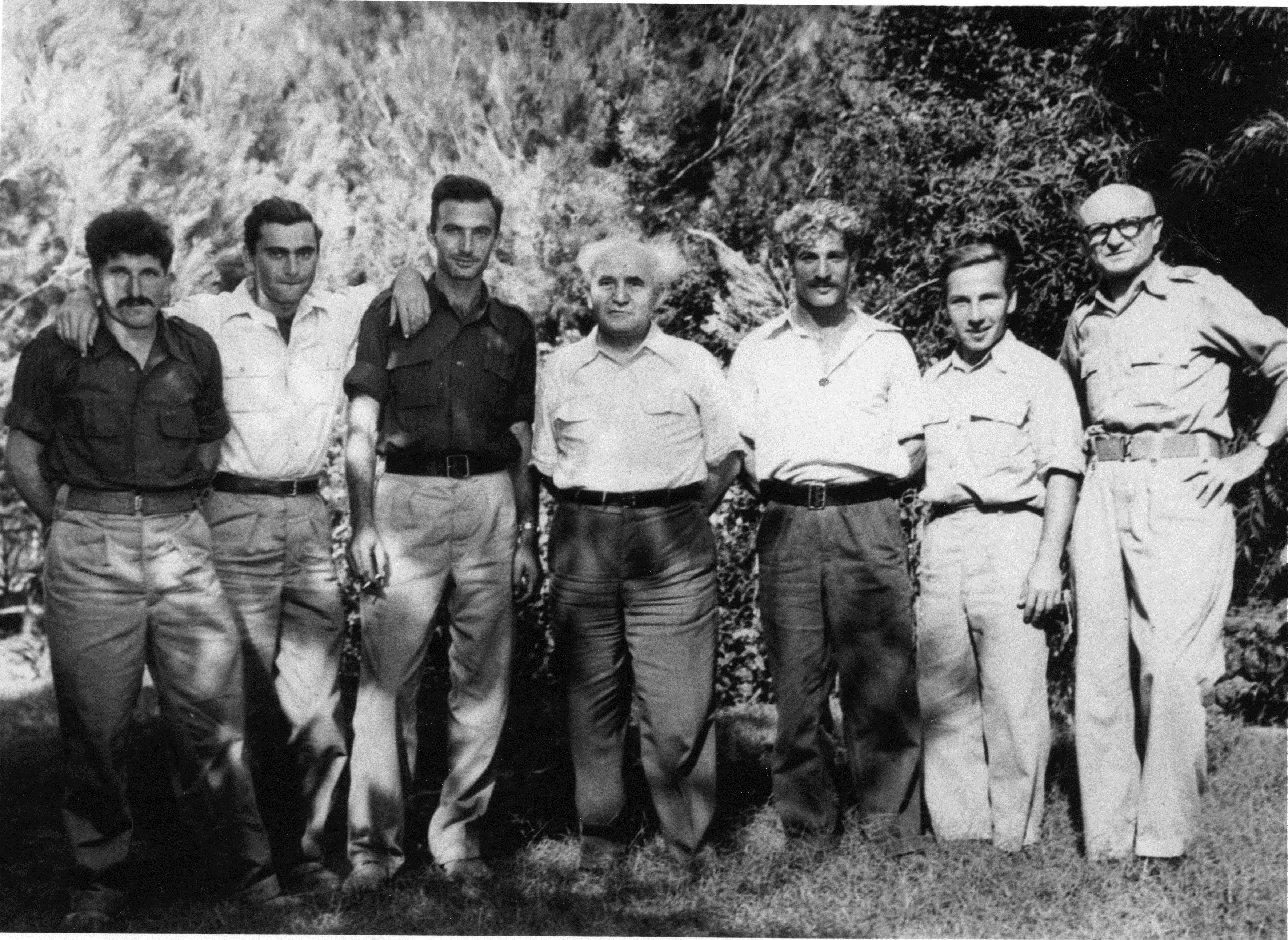 The Palmach, Israel Defense Forces